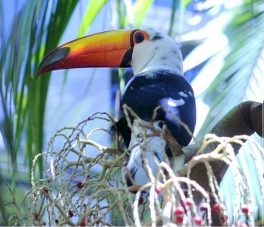 Partial leucism in Toco Toucan individual from an urban area of the Federal District, Brazil. Partial leucistic (Top) and Normal (Bottom), for comparison.